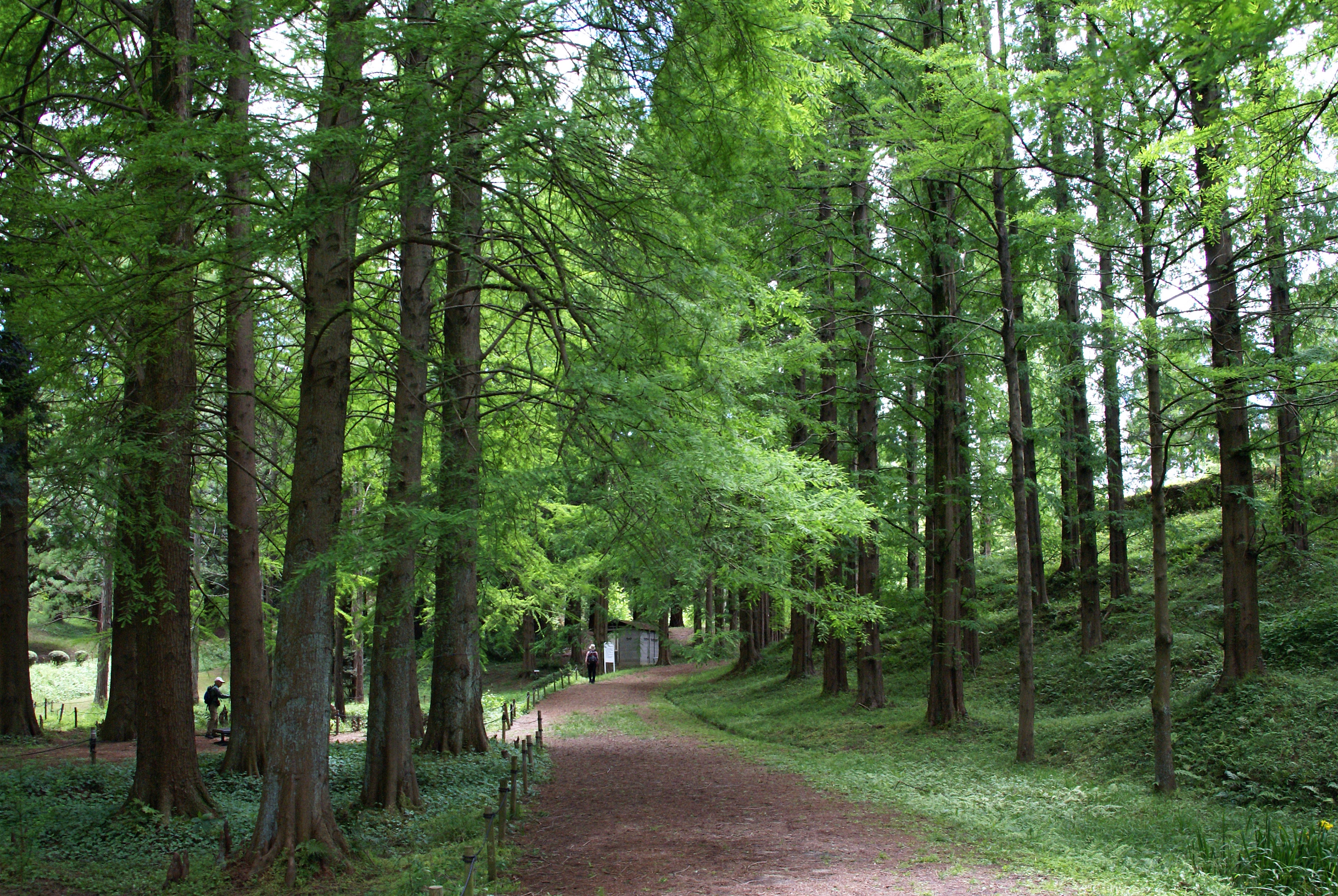 Botanical Gardens Faculty of Science Osaka City University in Katano, Osaka prefecture, Japan